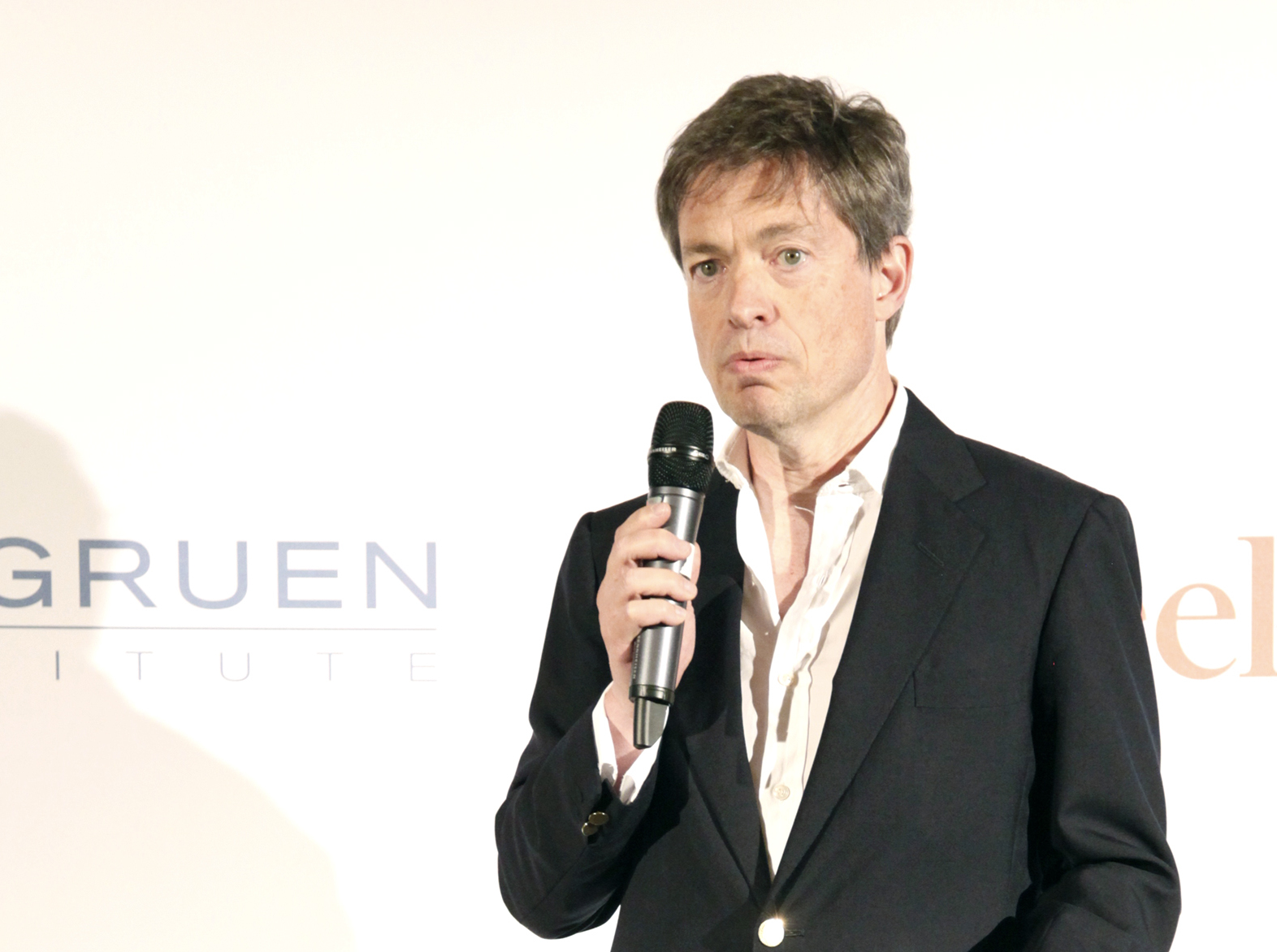 Nicolas Berggruen, Chairman of the Berggruen Institute, at Berggruen Institute Event 12